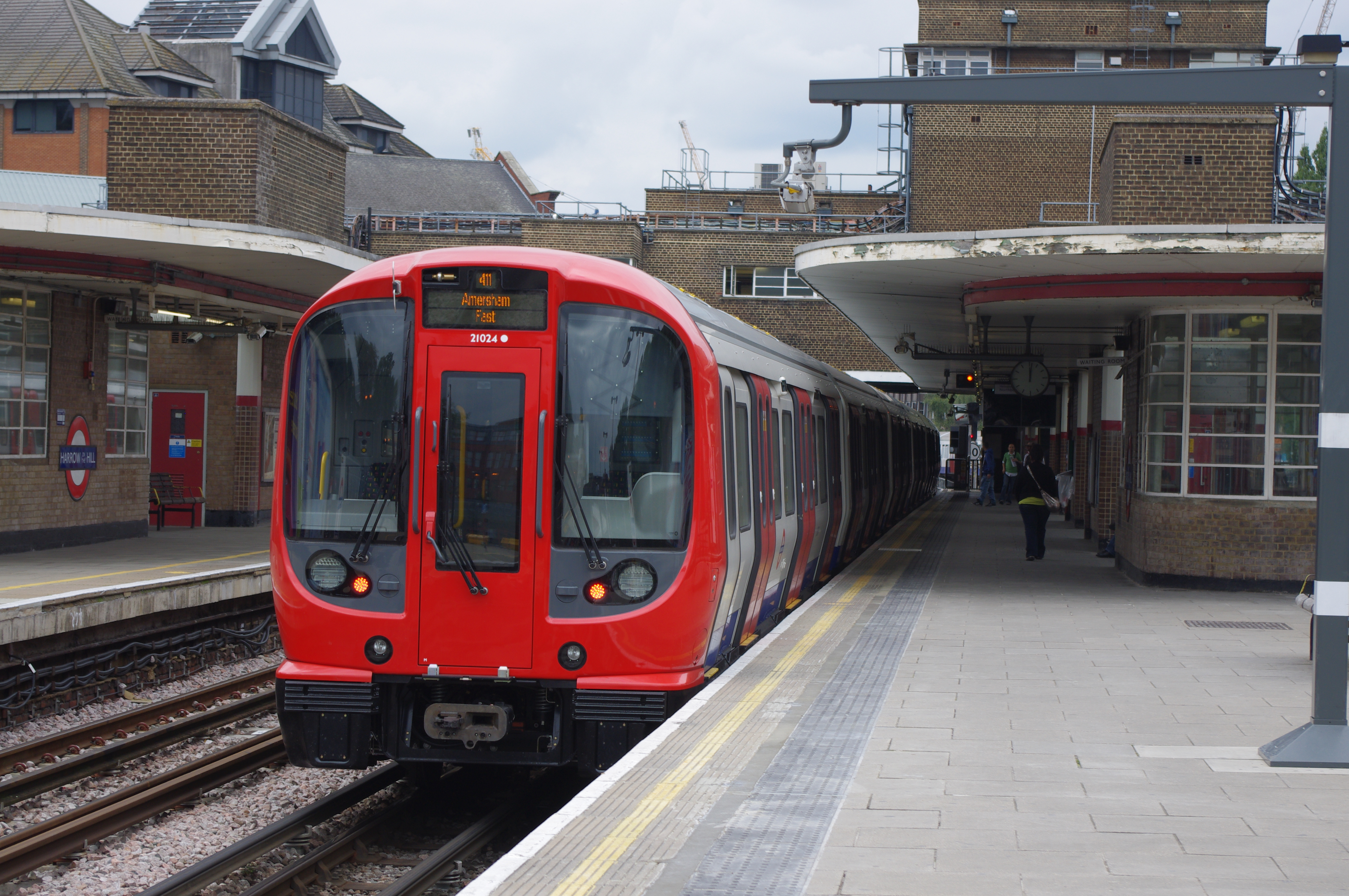 21024, a Metropolitan Line S Stock is seen here at Harrow-on-the-Hill working a fast service to Amersham.